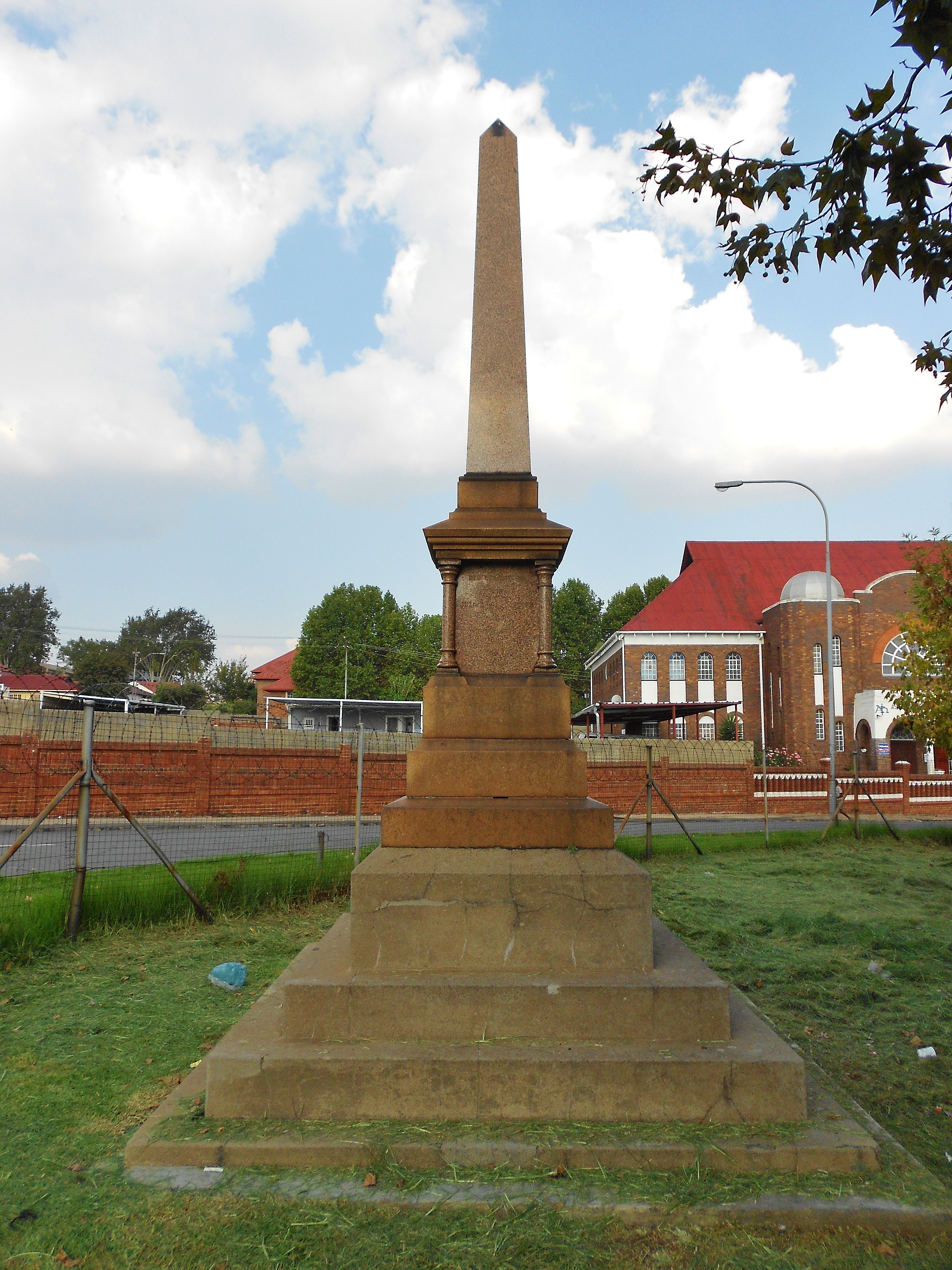 Founder of Jeppestown, Julius Jeppe memory is honoured by this monument and the town. This media shows a South African Protected Site with SAHRA file reference 9/2/228/0245.